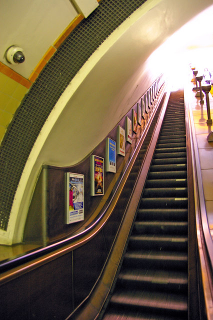 Escalator, Southgate Station, London N14 These escalators with the original large uplighters between and the old type of advertisement mean that this station is popular with film companies.